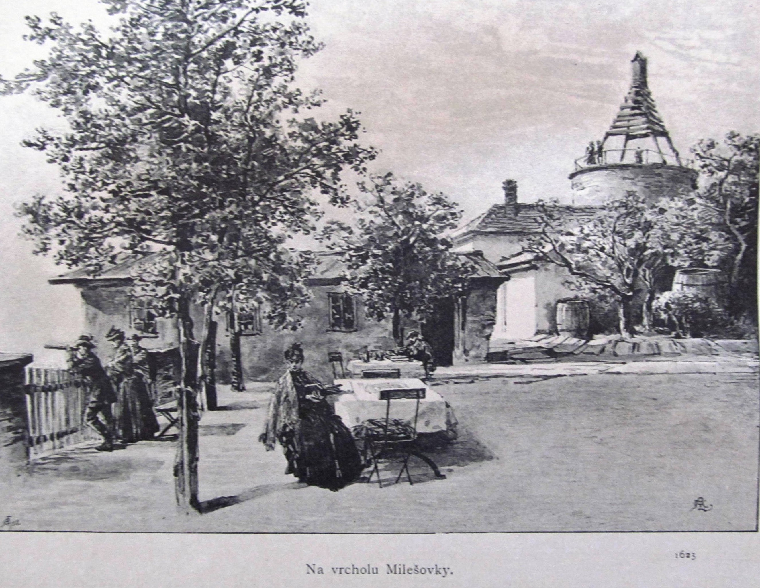 Pub and small trigonometry tower, 1892